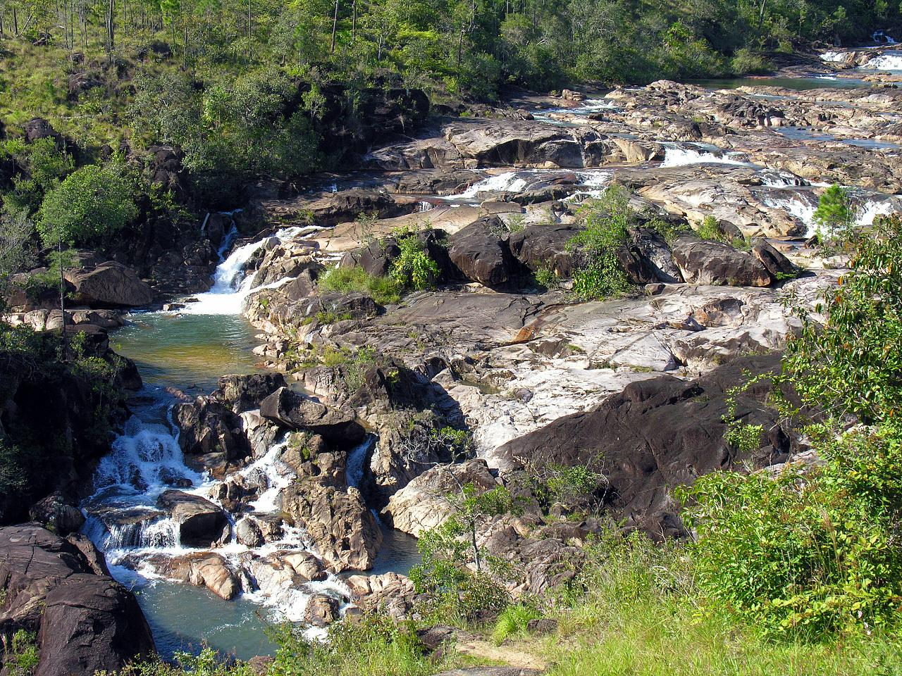 We stopped for a couple of minutes at Rio on Pools. Some theorize this out of place ecosystem is the remnant of a volcanic island that long ago collided with the mainland. These are some of the oldest rocks in Central American.